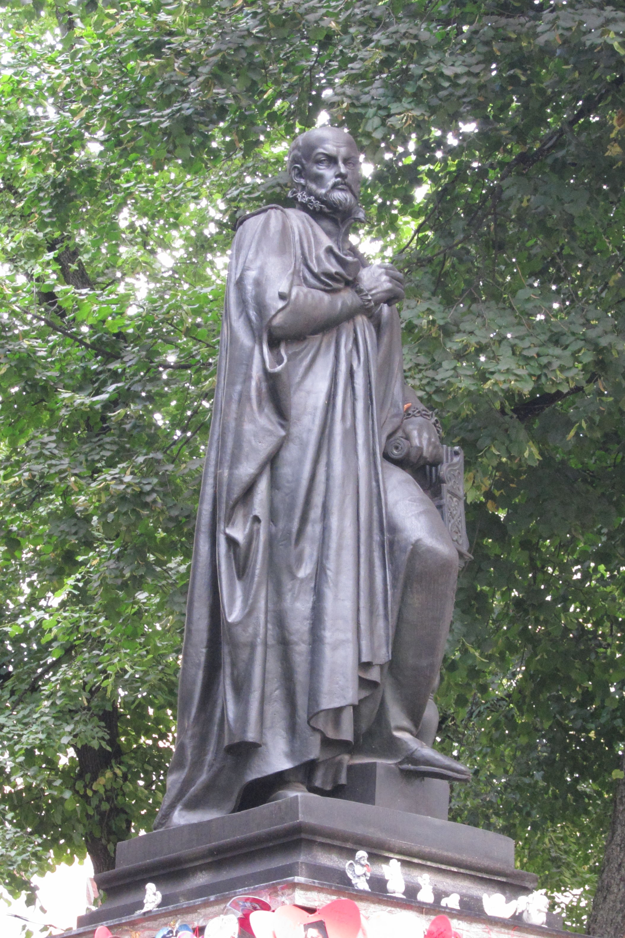 Statue of Roland de Lattre, named Orlande de Lassus or Orlando di Lasso in Germany; original by Max Widmann, 1849, replica by Agostino Zuppa, 1958; on Promenadeplatz, Munich, Germany